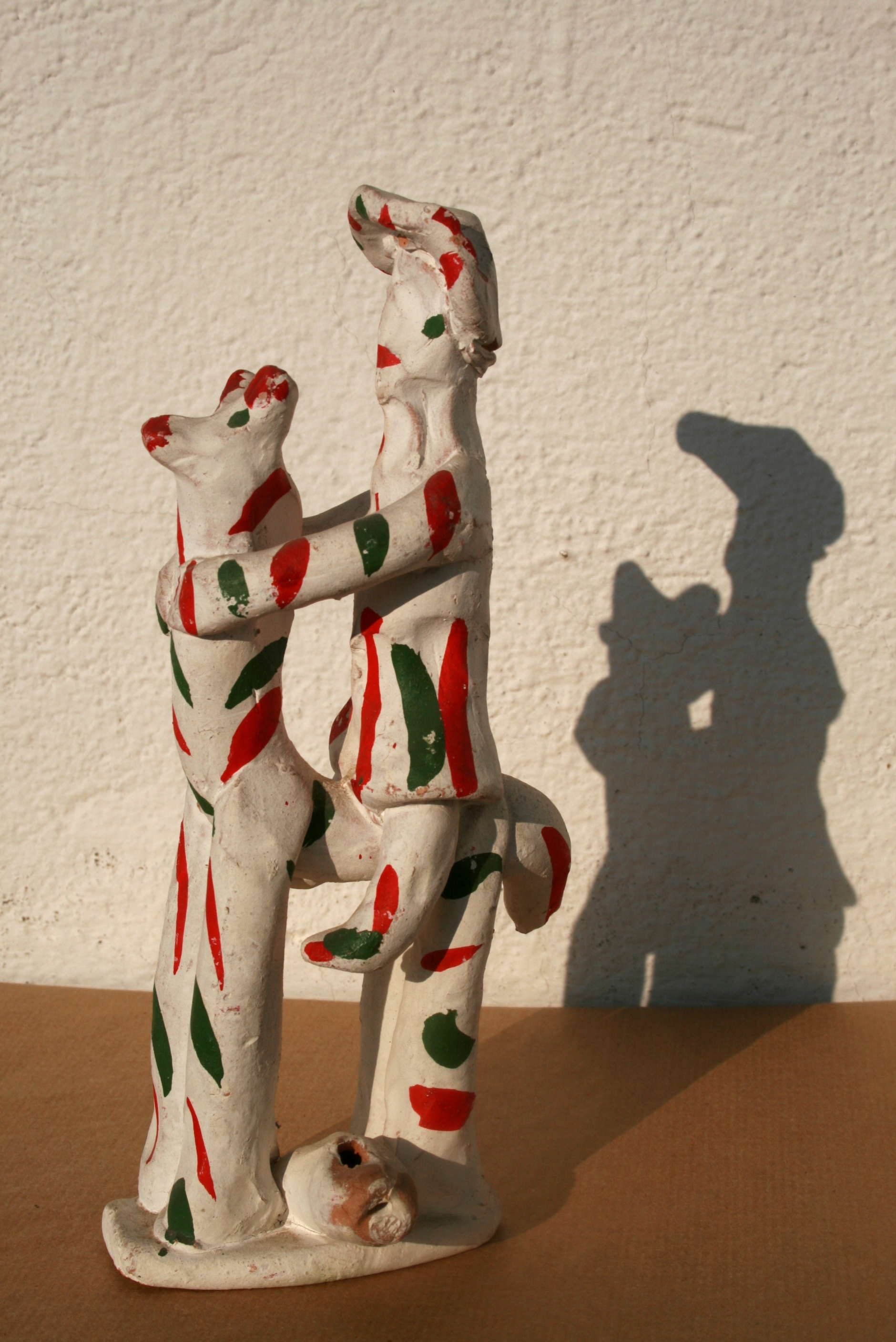 Siurell. Musical instrument from Mallorca